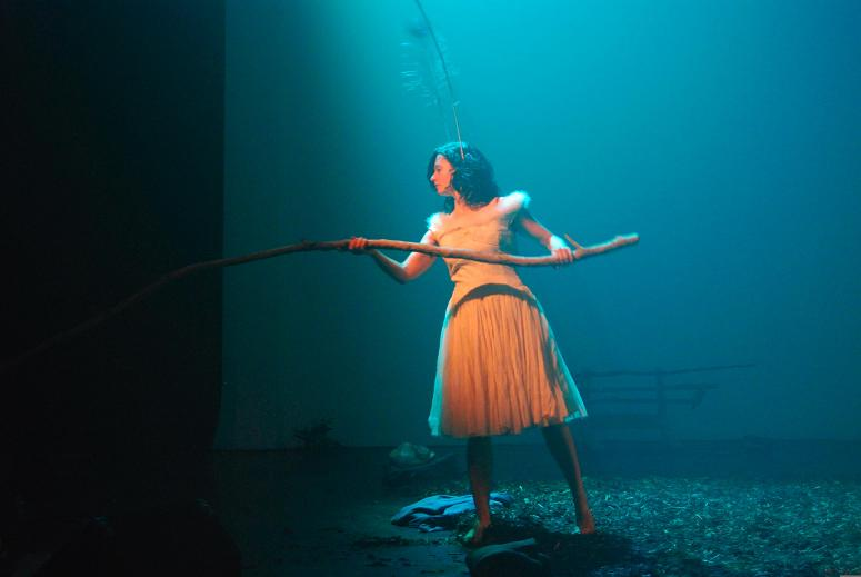 Veronika Svabova, in performance Mushrooms of Handa Gote group. Practical demonstration of Freestyle stick using.